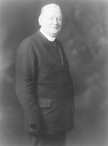 Peter Yorke (1864-1925)